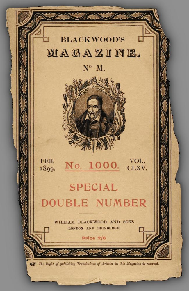 Blackwood's Magazine - 1899 February's cover